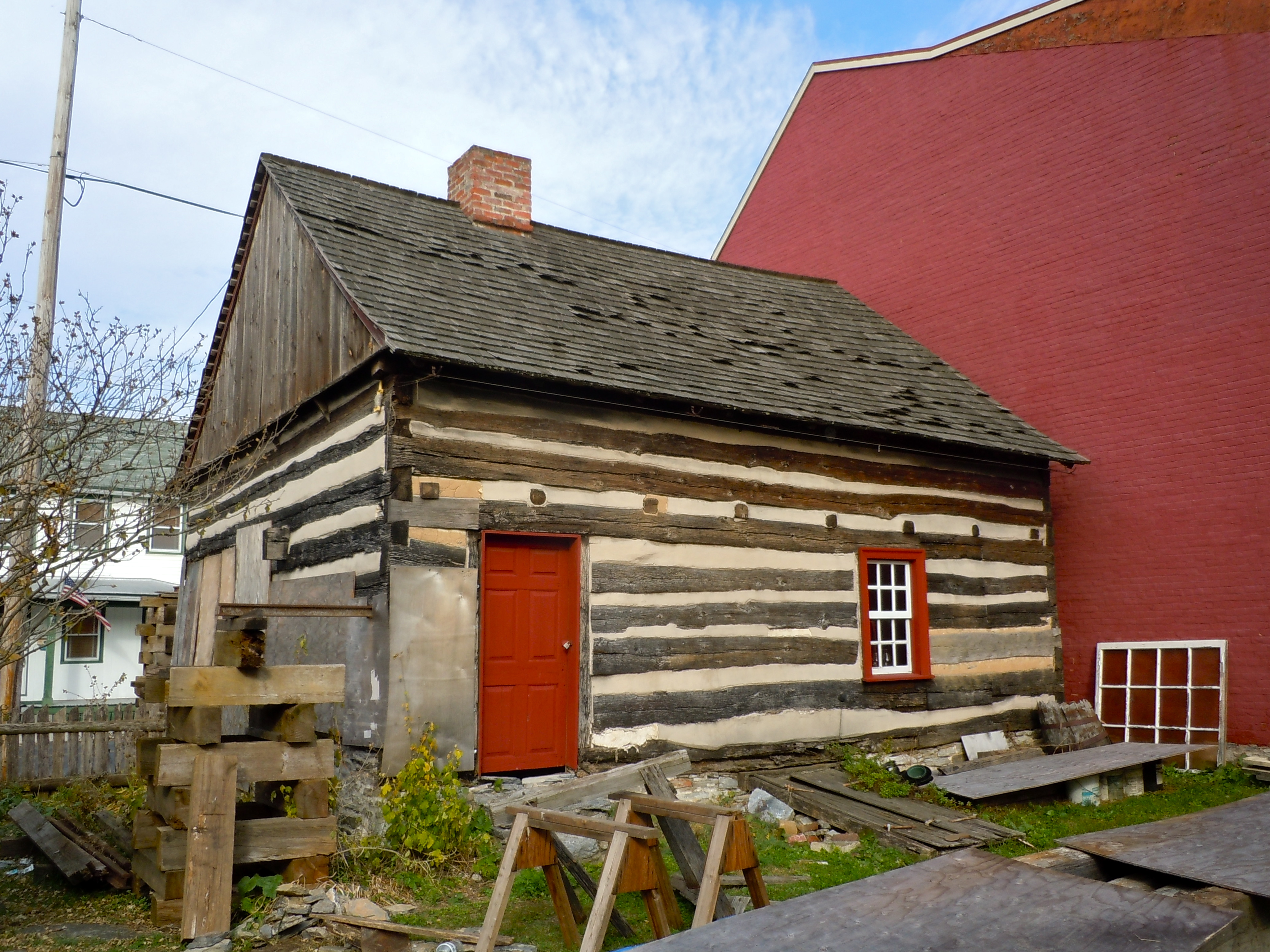 Chestnut Street Log House on the NRHP since November 20, 1978 At 1110 Chestnut Street, Lebanon, Lebanon County, Pennsylvania.